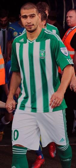 Yevgeny Savin with FC Tom Tomsk.